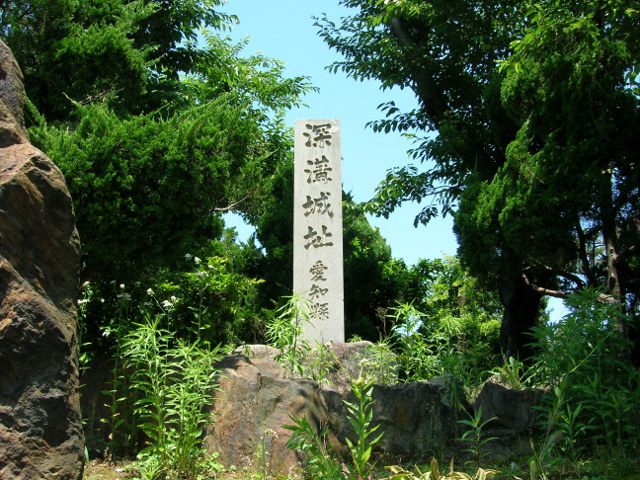 Fukozu-jho shi (Site of Fukozu castle). Loc: Kota town, Nukata District, Aichi Prefecture, Japan. 深溝城址 撮影場所 愛知県額田郡幸田町